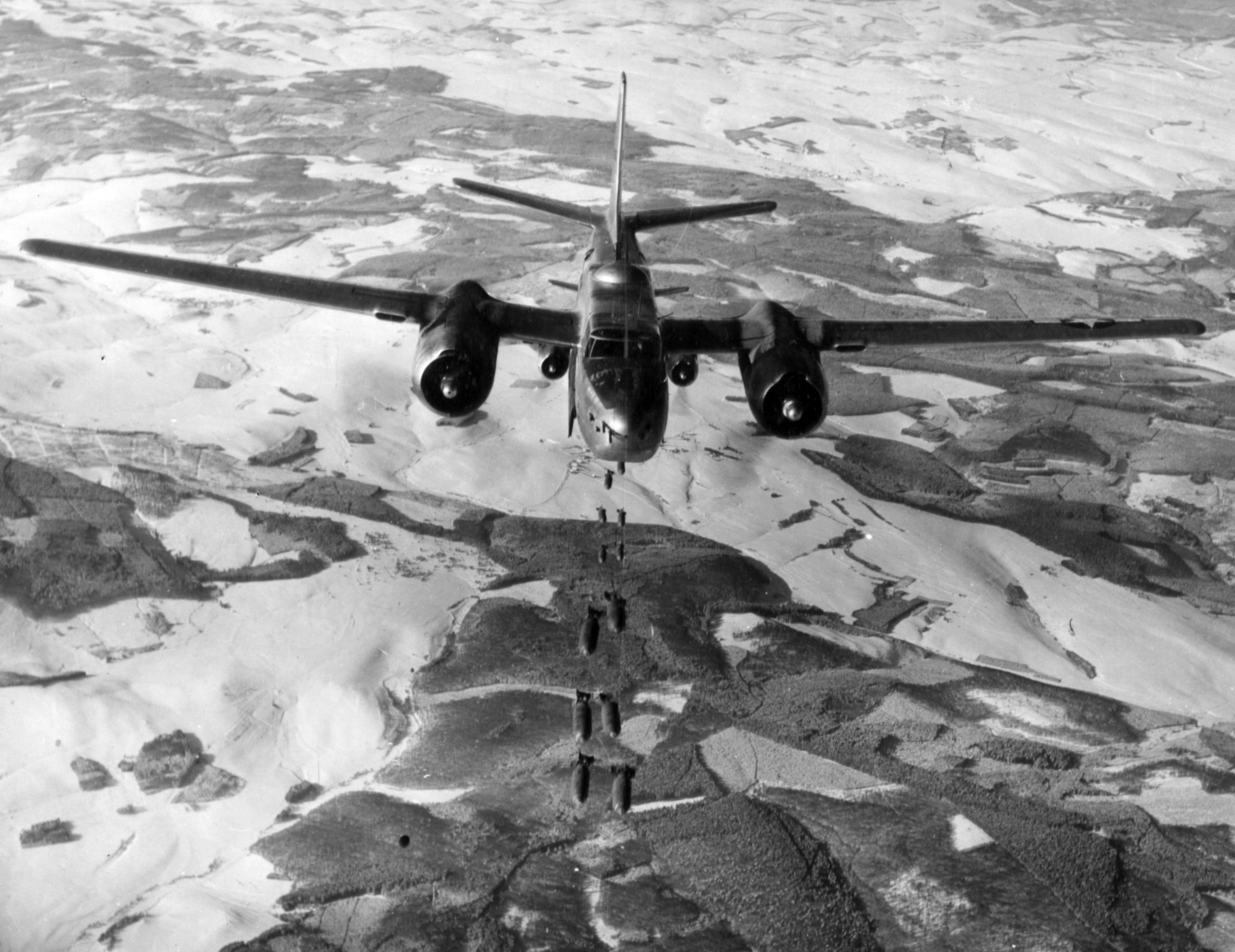 A-26 Invader attack aircraft dropping bombs on the Siegfried Line.